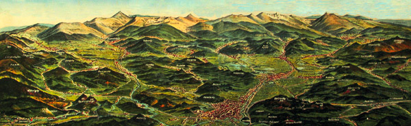 Karkonosze Mountains (Riesengebirge) and Kotlina Jeleniogórska (Hirschberger Tal) around 1925